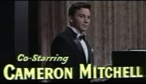 Cropped screenshot of Cameron Mitchell from the trailer for the film Love Me or Leave Me